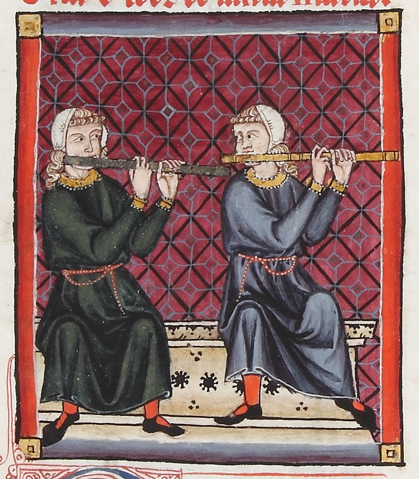 Illustration from Cantigas de Santa Maria manuscript. The Cantigas de Santa Maria (Songs to the Virgin Mary) are manuscripts written in Galician-Portuguese, with music notation, during the reign of Alfonso X El Sabio (1221-1284) and are one of the largest collections of monophonic (solo) songs from the Middle ages.